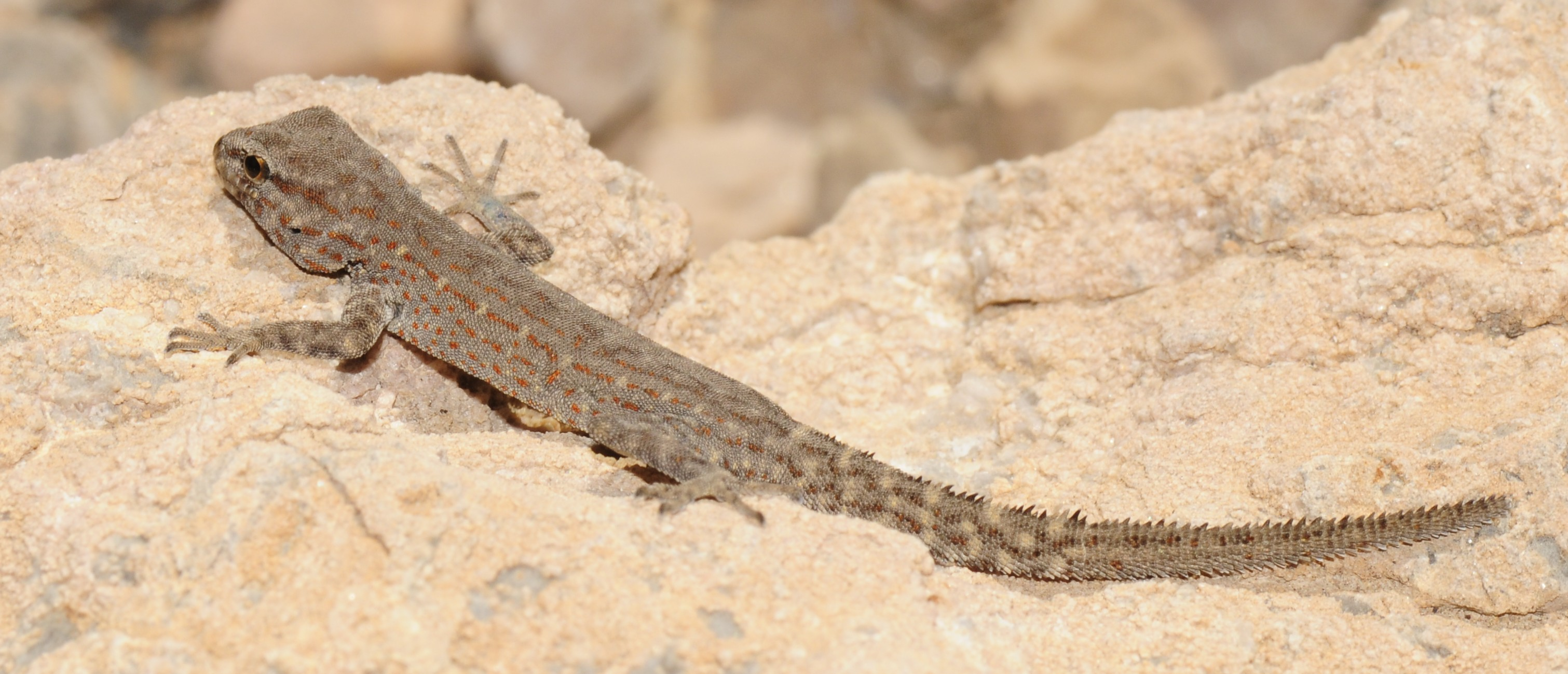 Please report references to .